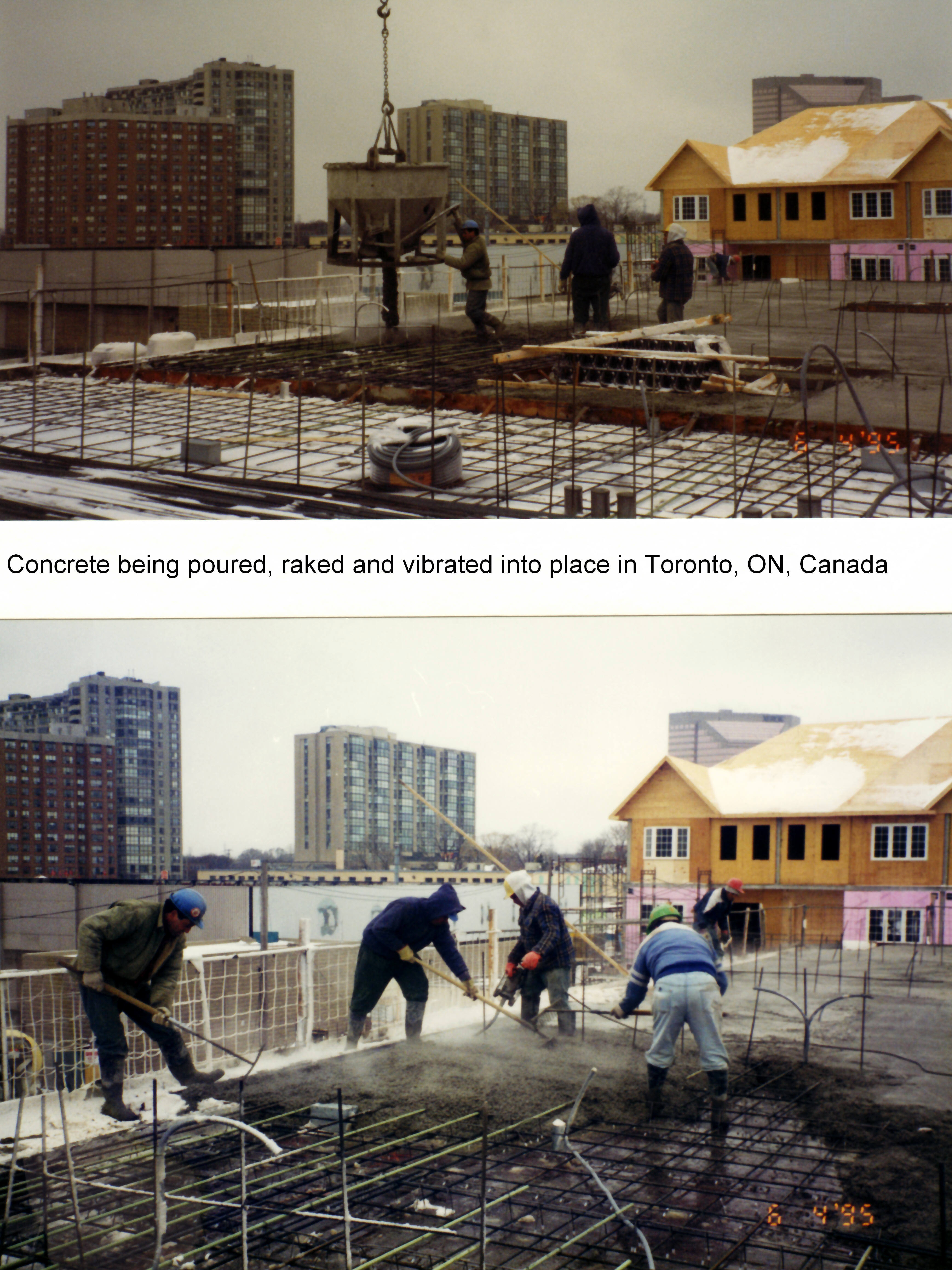 Concrete being poured, raked and vibrated into place in residential construction in Toronto, Ontario, Canada.